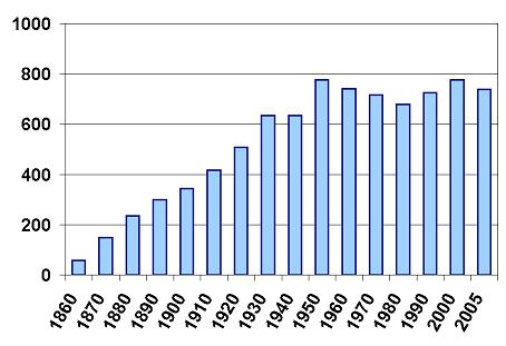 Population growth of San Francisco, California from 1850-2005